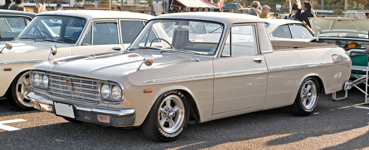 Toyopet Crown Pickup ( Aussie model MS47P )